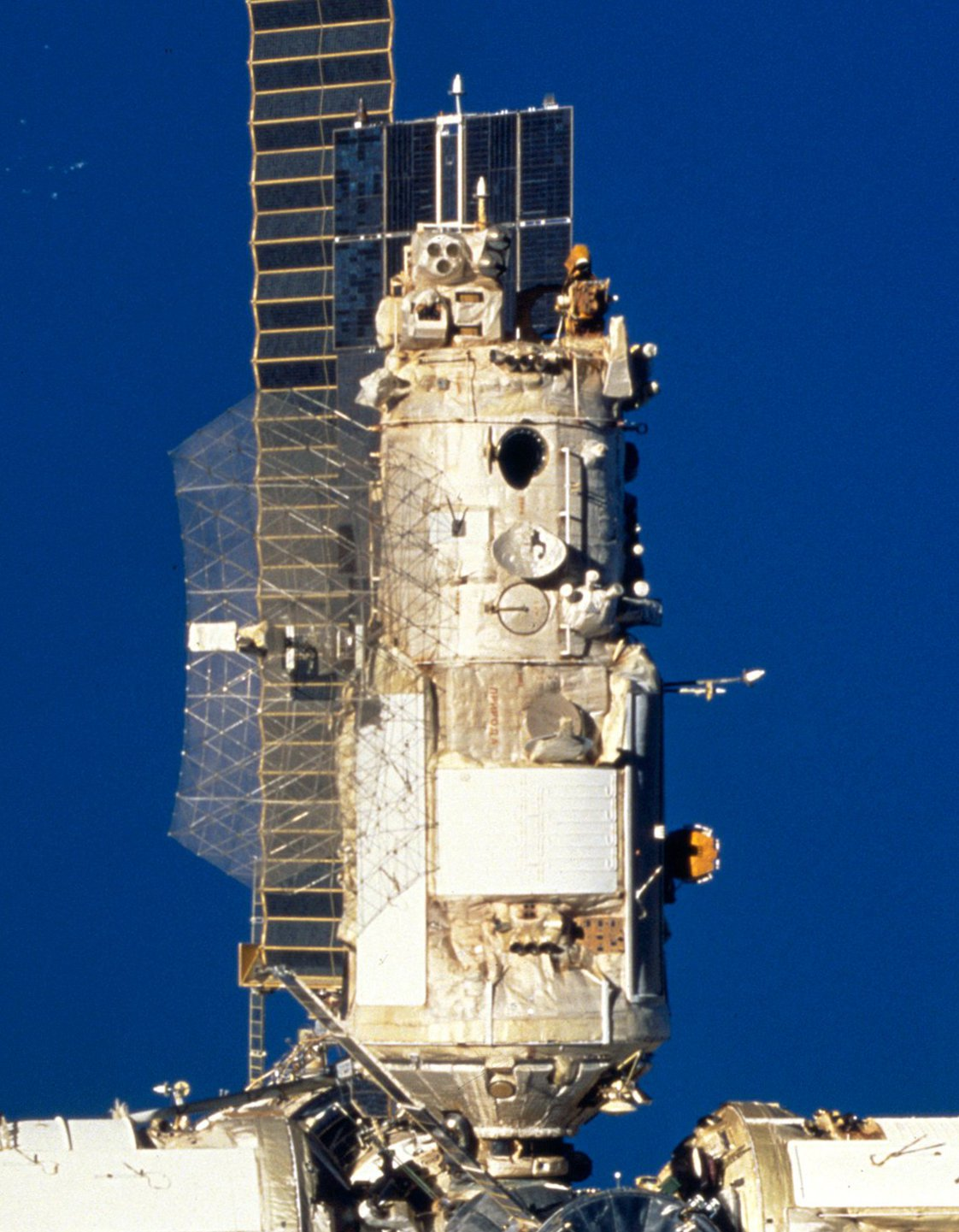 The Priroda module of the Russian space station Mir, as seen from the Space Shuttle Endeavour STS-89.